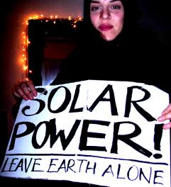 Evi hassapides watson with Protest sign - unknown demonstration/time. Εύη Χασαπίδου